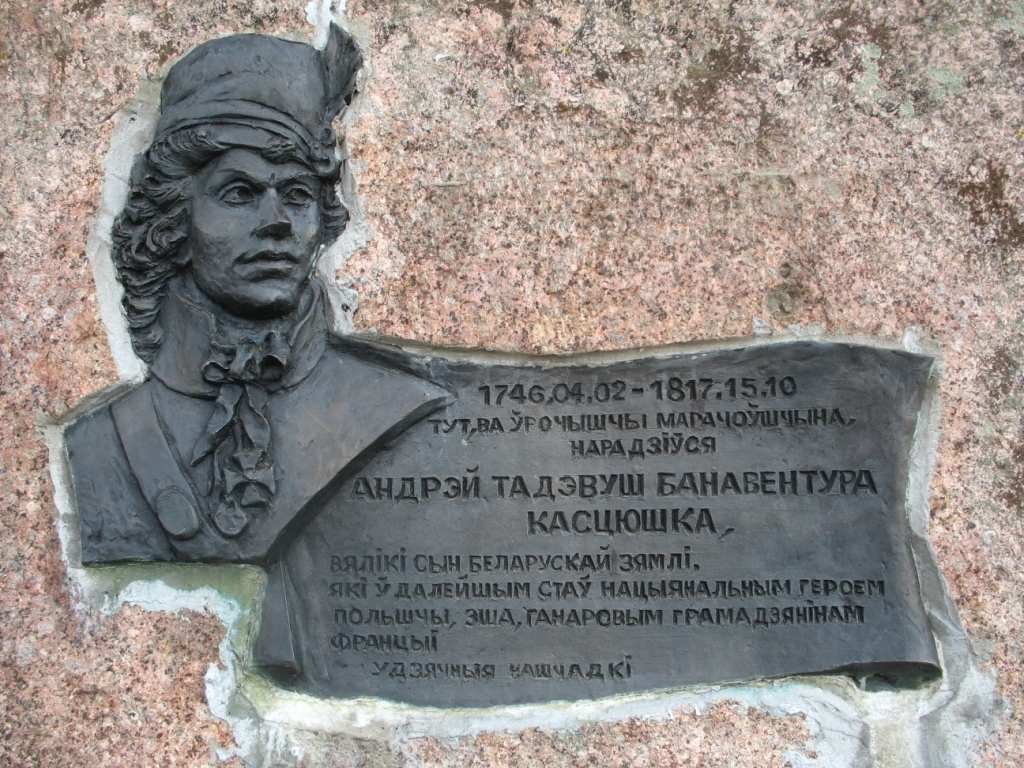 House of Kasciuška (Mieračoŭščyna), Belarus. Restauration